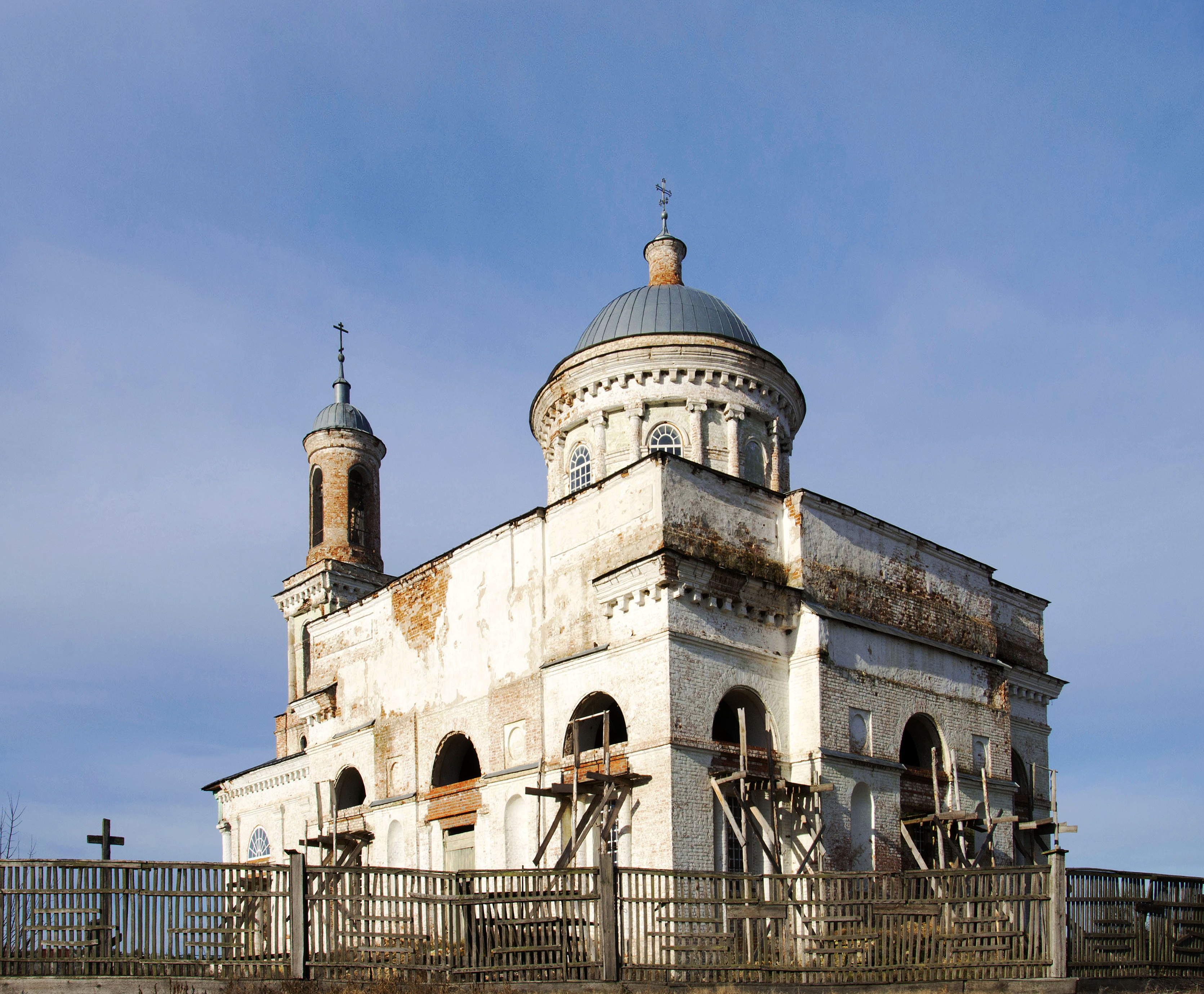 The village Elanskaya Rostov region, Sholokhov district,Russia. The Church of Nicholas( Svyato-Nikolsky Church). Year of construction: not earlier 1826.